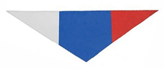 Pionersky tie trëkolor, Russia. (The color of the national flag of Russia)